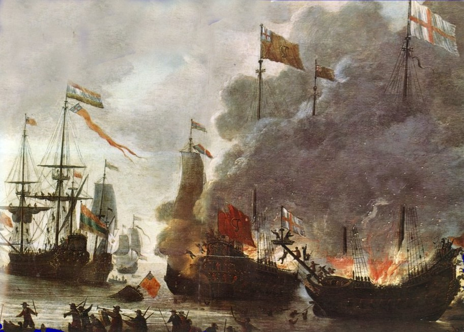 The Battle in the Medway detail